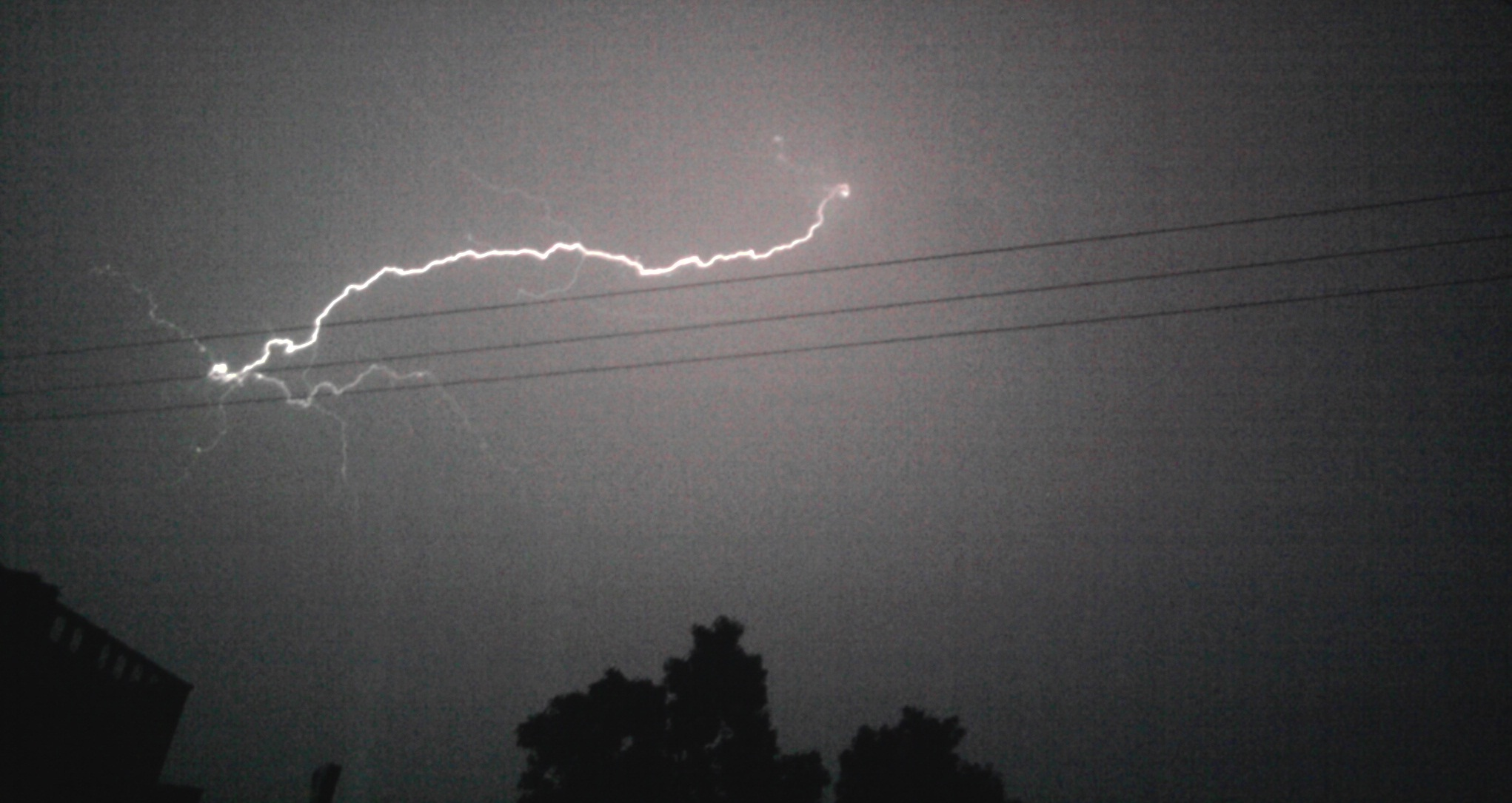 Lightning at night time in Vinjamur, Nellore (dt), A.P. India.